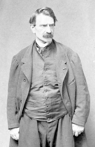 French musician and dance teacher François Delsarte (1811-1871).